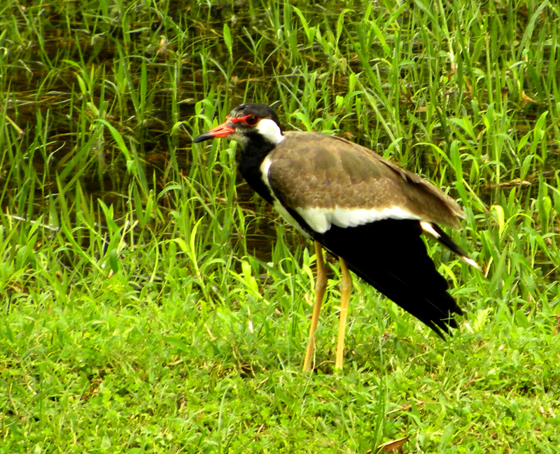 Red Wattled Lapwing